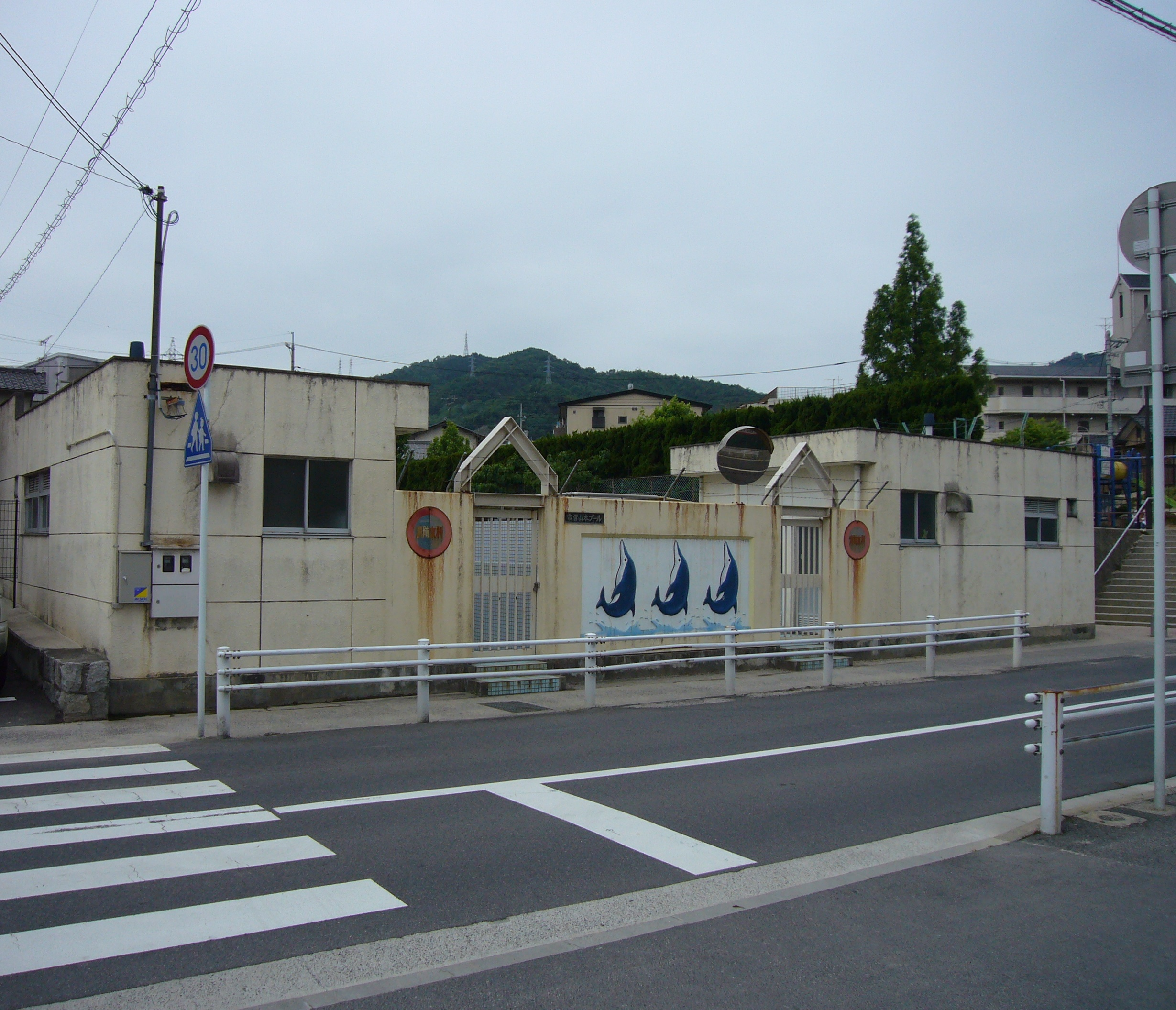 The photo of Hiroshima city Yamamoto pool